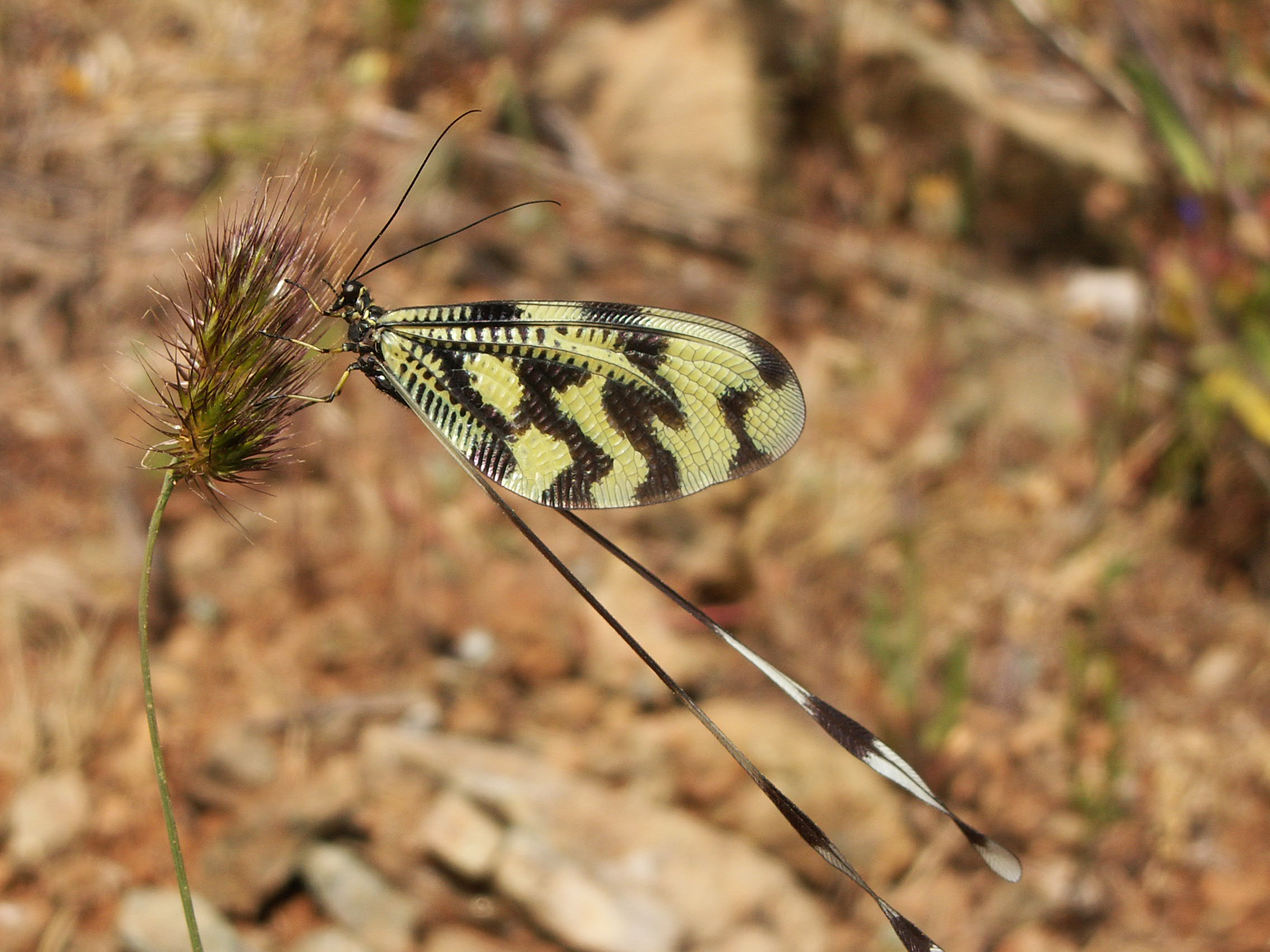 Nemoptera sinuata Turkey: between Marmaris and Datça, 312 m.